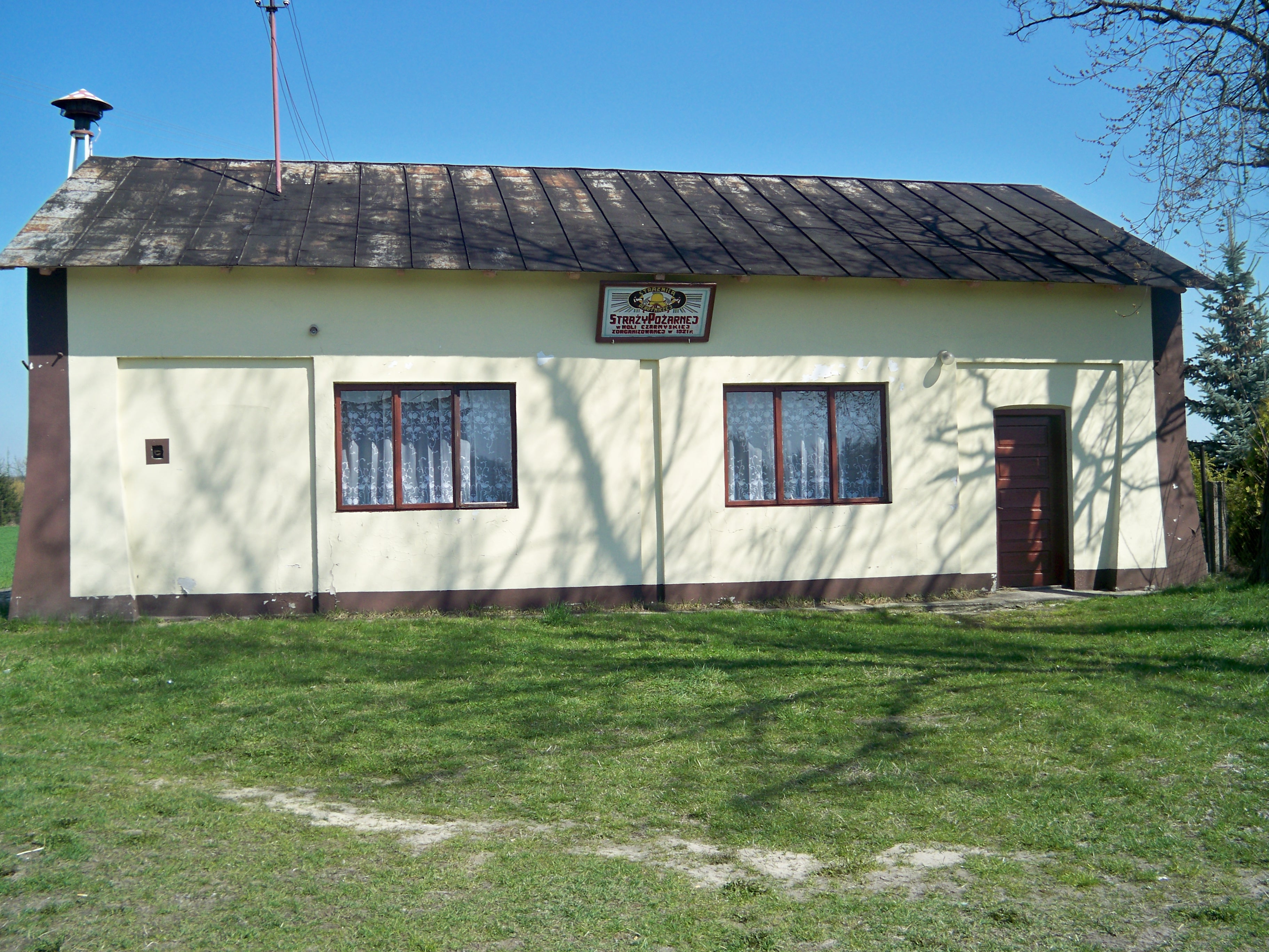 My photo